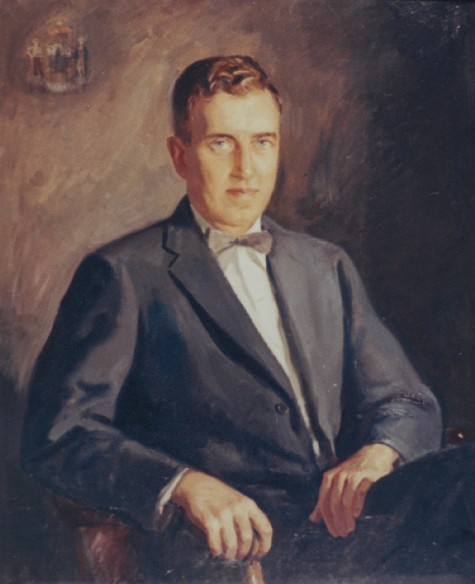 Edmund Muskie, portrait